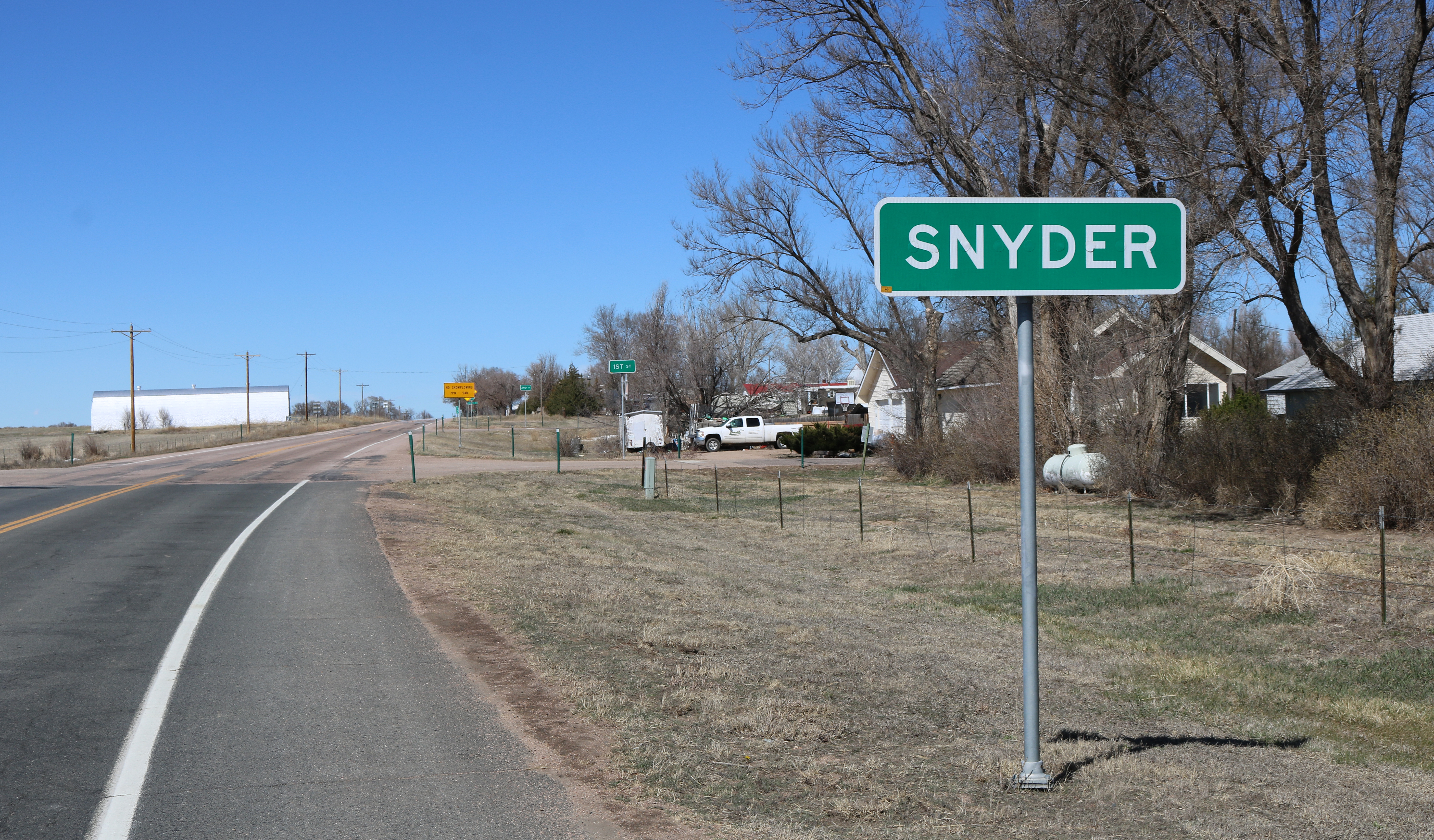 A view of Snyder, Colorado, in Morgan County. The view is to the north along Colorado State Highway 71.